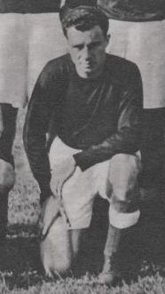 Rudolf Demetrovics in the 40's.